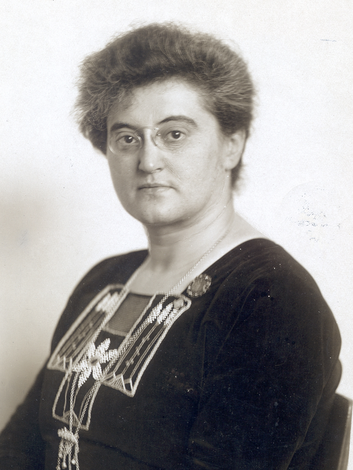 Rosika Schwimmer, Hungarian suffragist and pacifist